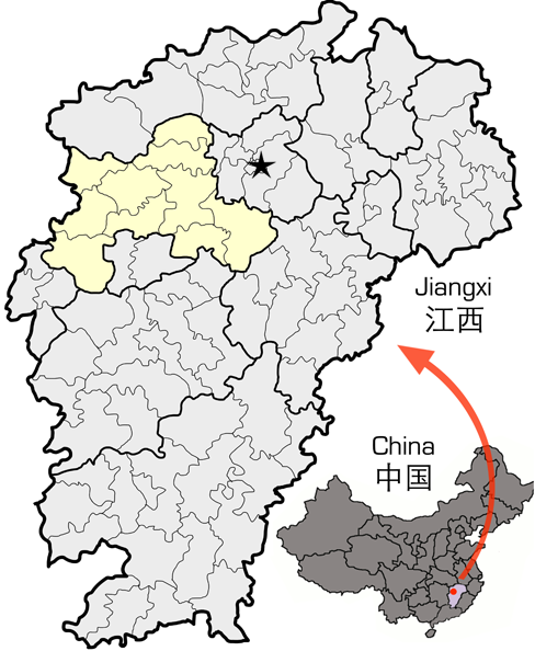 Map showing the location of Yichun within Jiangxi Province China